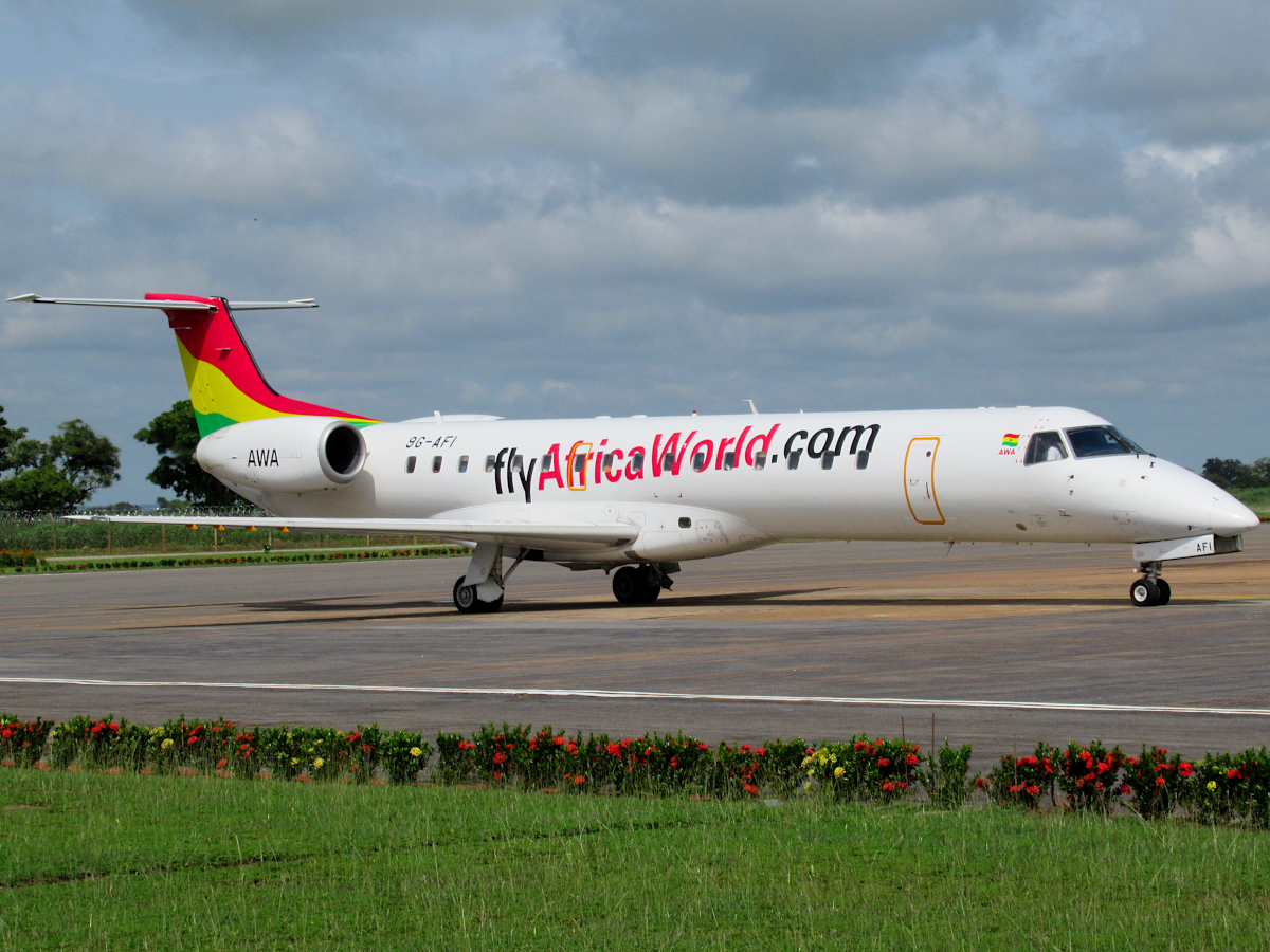 Africa World Airlines ERJ-145LI at Tamale International Airport